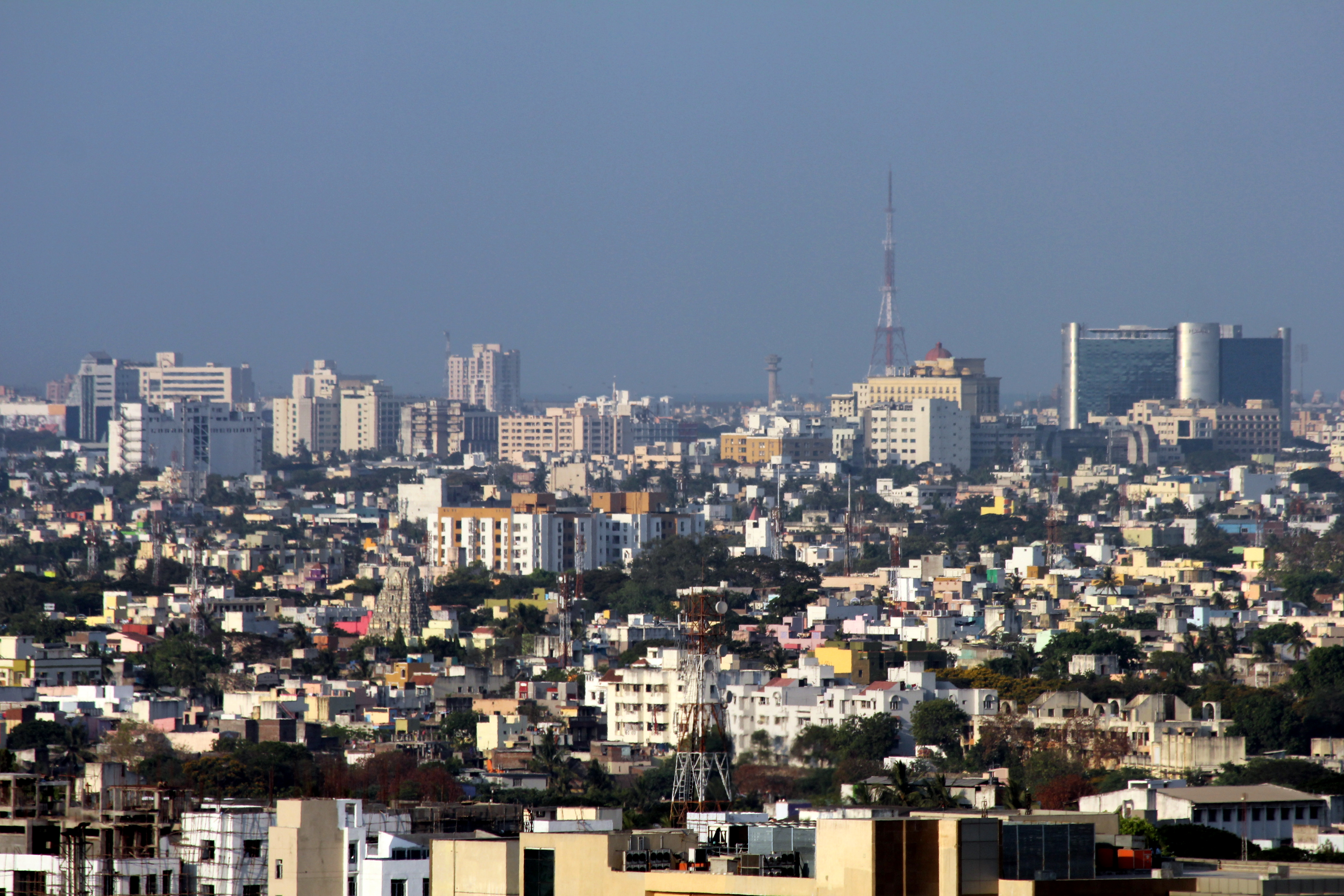 Part of Chennai viewed from St Thomas Mount.